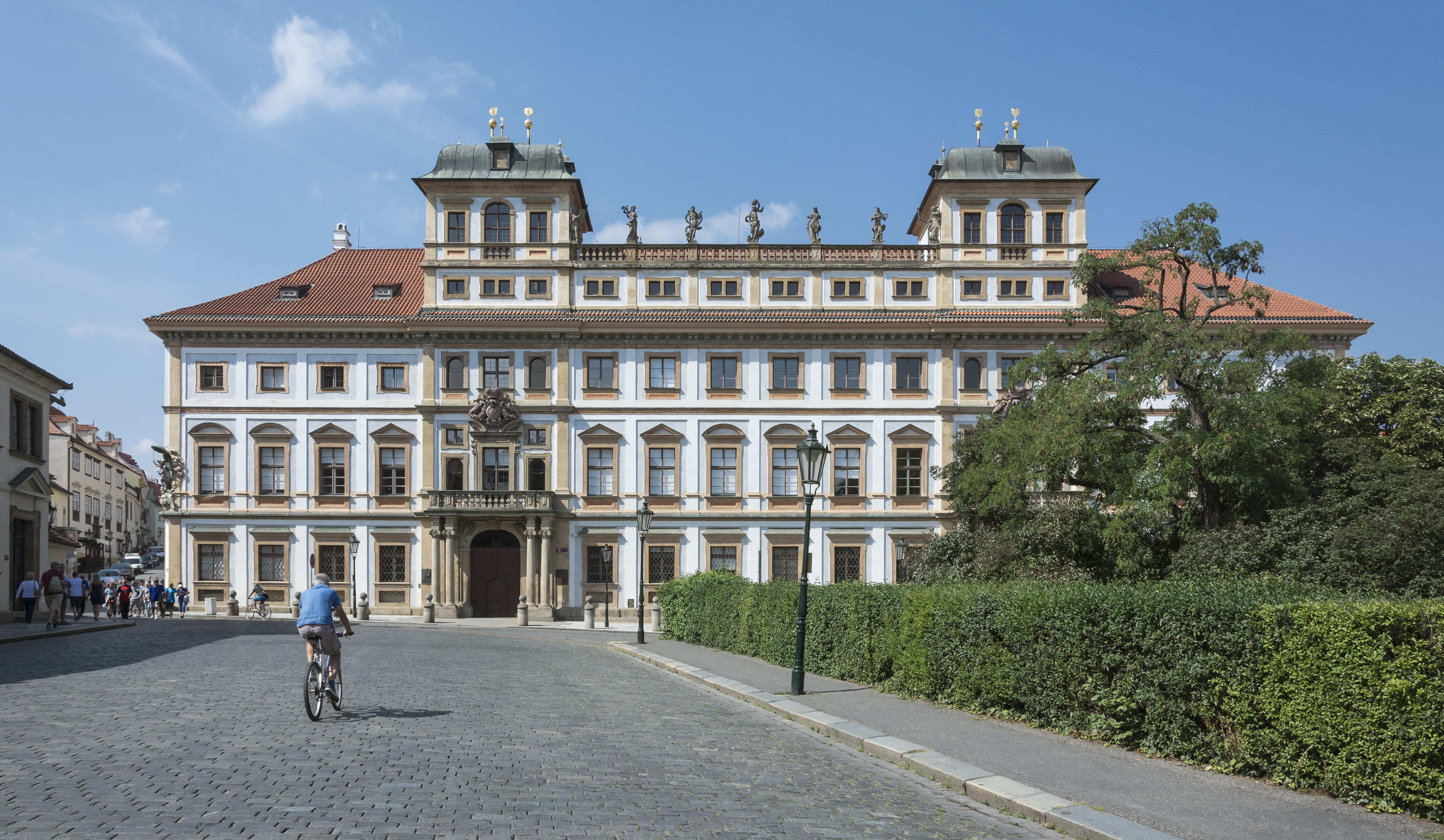 Tuscan Palace in Prague